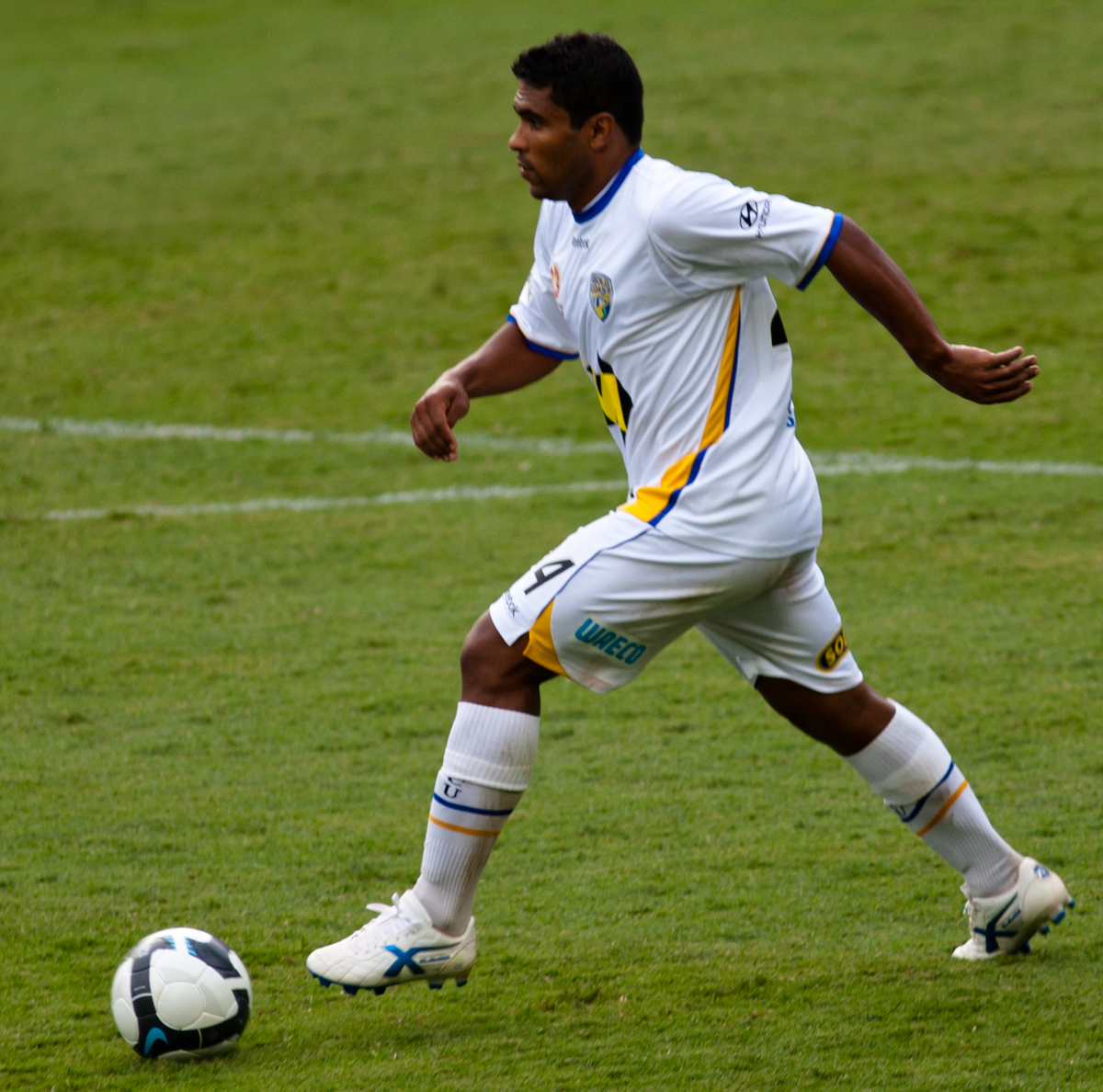 Anderson Alves da Silva playing for Gold Coast United against Sydney FC in the 2009-10 A-League.